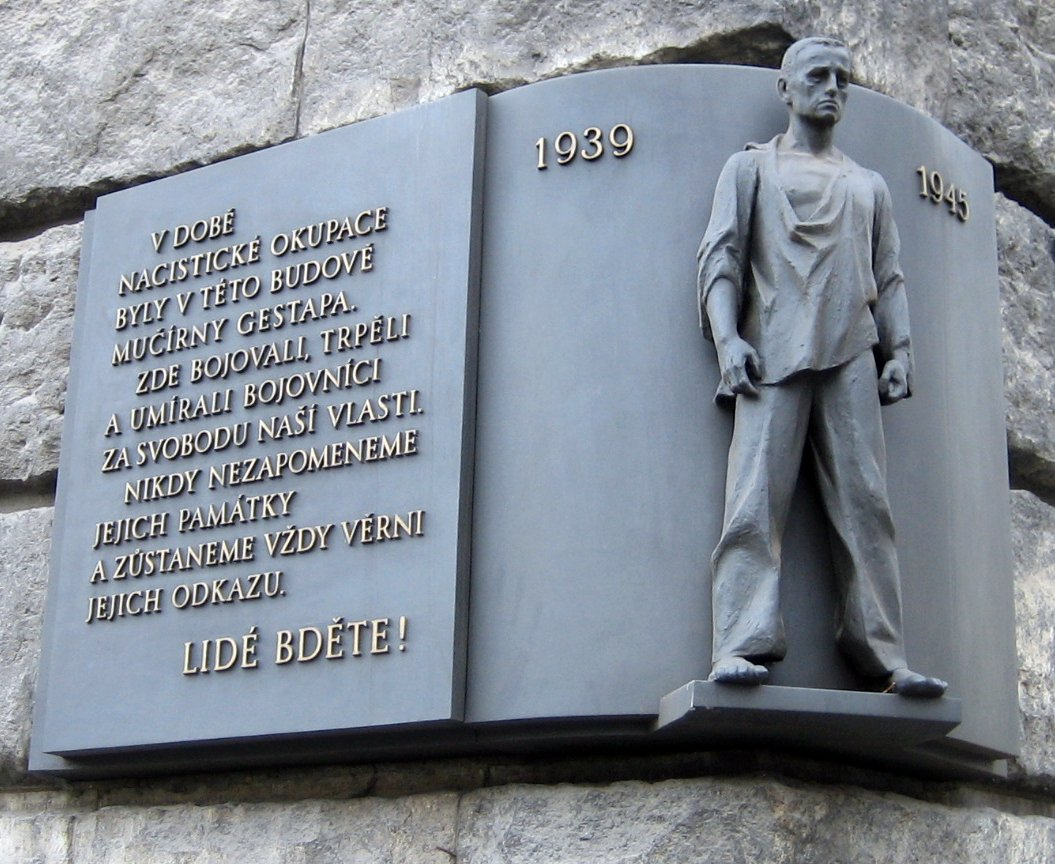 A memorial, on the corner of Petschkův palác, commemorating the victims of the Gestapo and Reinhard Heydrich. "During the period of Nazi occupation, this building was home to the cruel Gestapo where the warriors for our nation's freedom fought, suffered and died. We shall never forget their memory and be faith to their legacy. People Be Watchful!